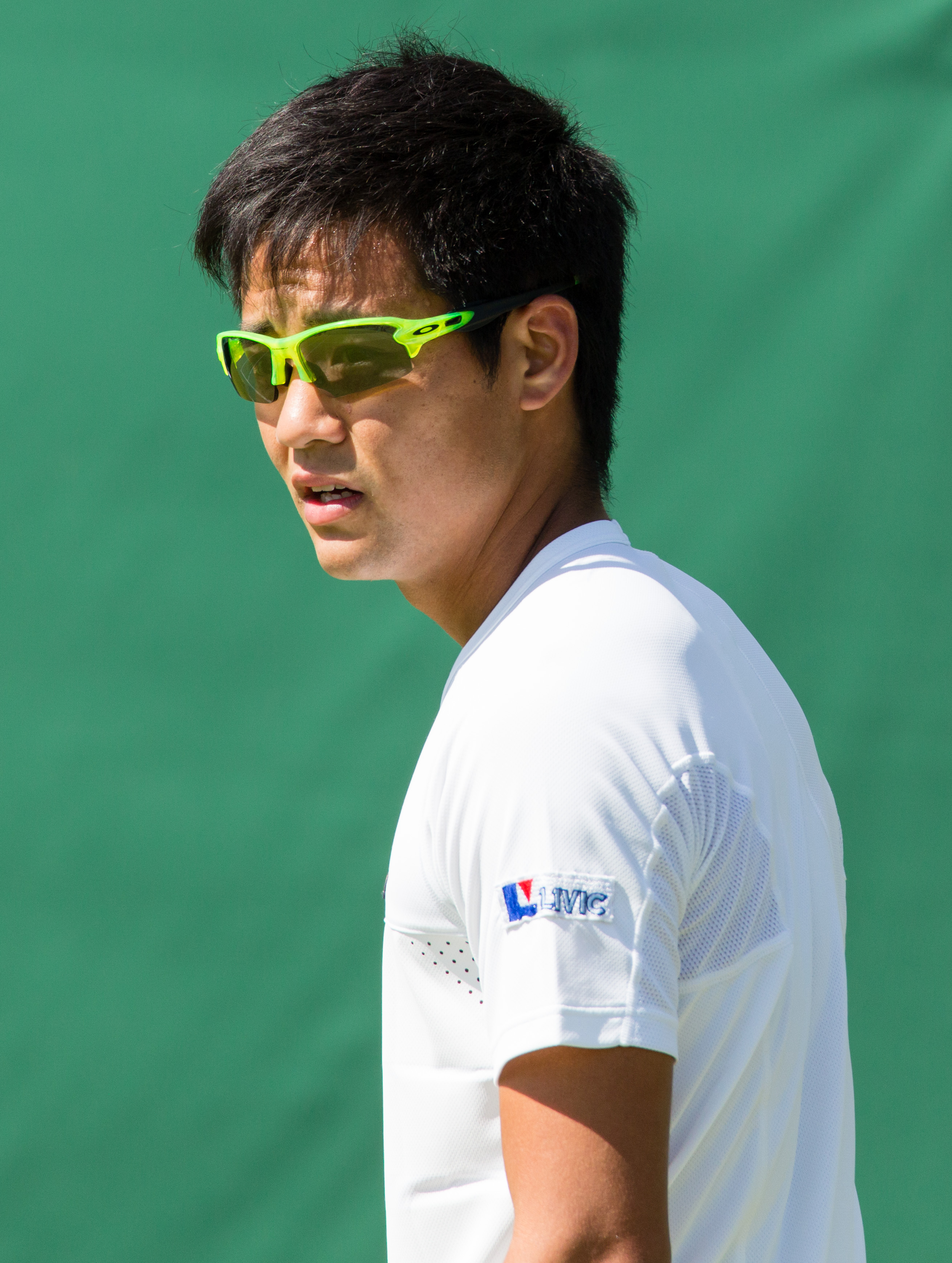 Hiroki Moriya competing in the first round of the 2015 Wimbledon Qualifying Tournament at the Bank of England Sports Grounds in Roehampton, England. The winners of three rounds of competition qualify for the main draw of Wimbledon the following week.